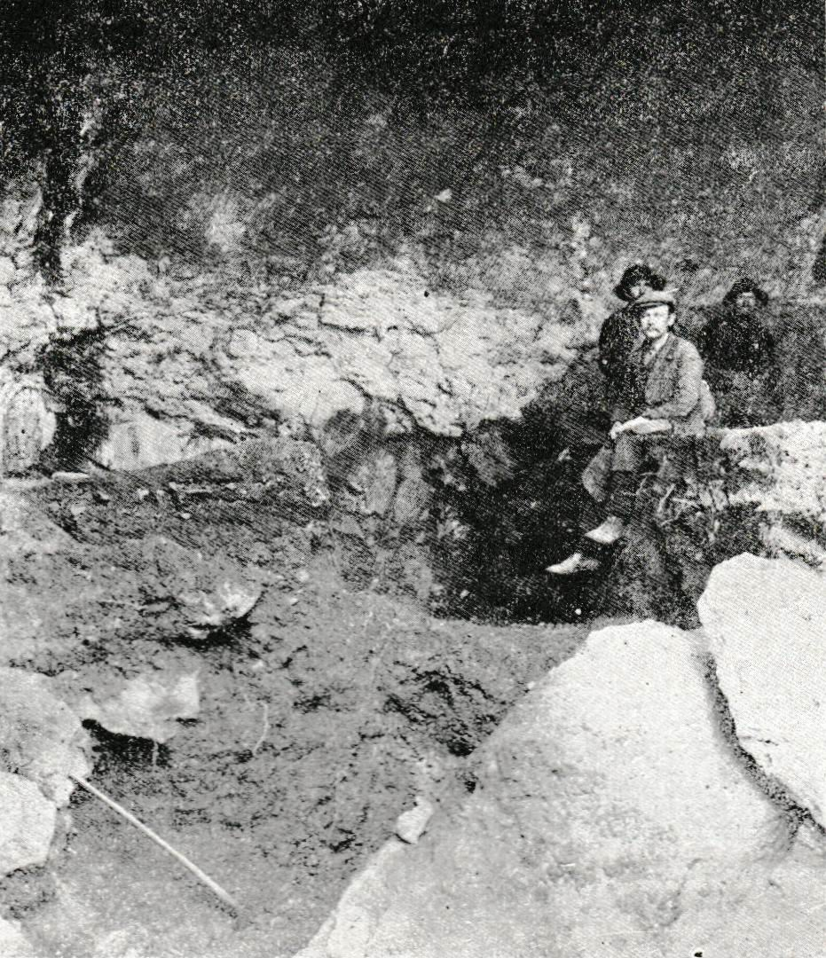 Interior of Pilisszántói Cave.